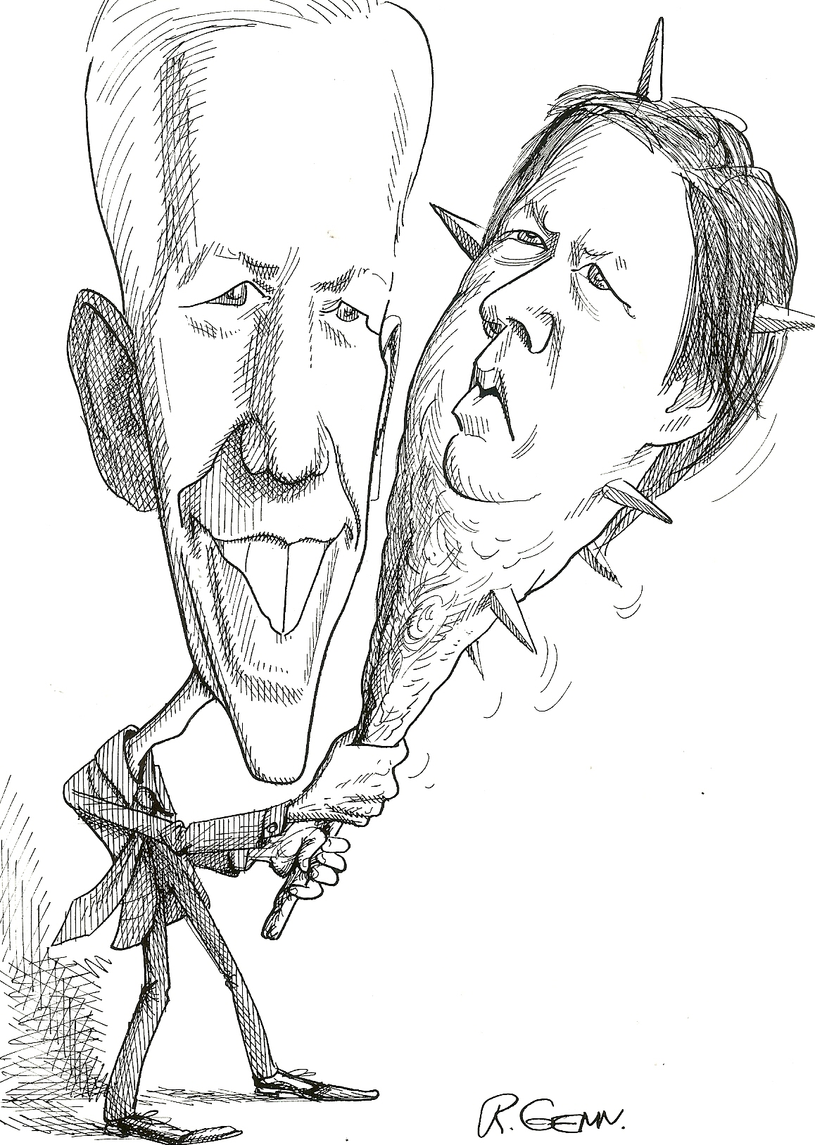 Cartoon of former California Governor Gray Davis and his strategist Garry South